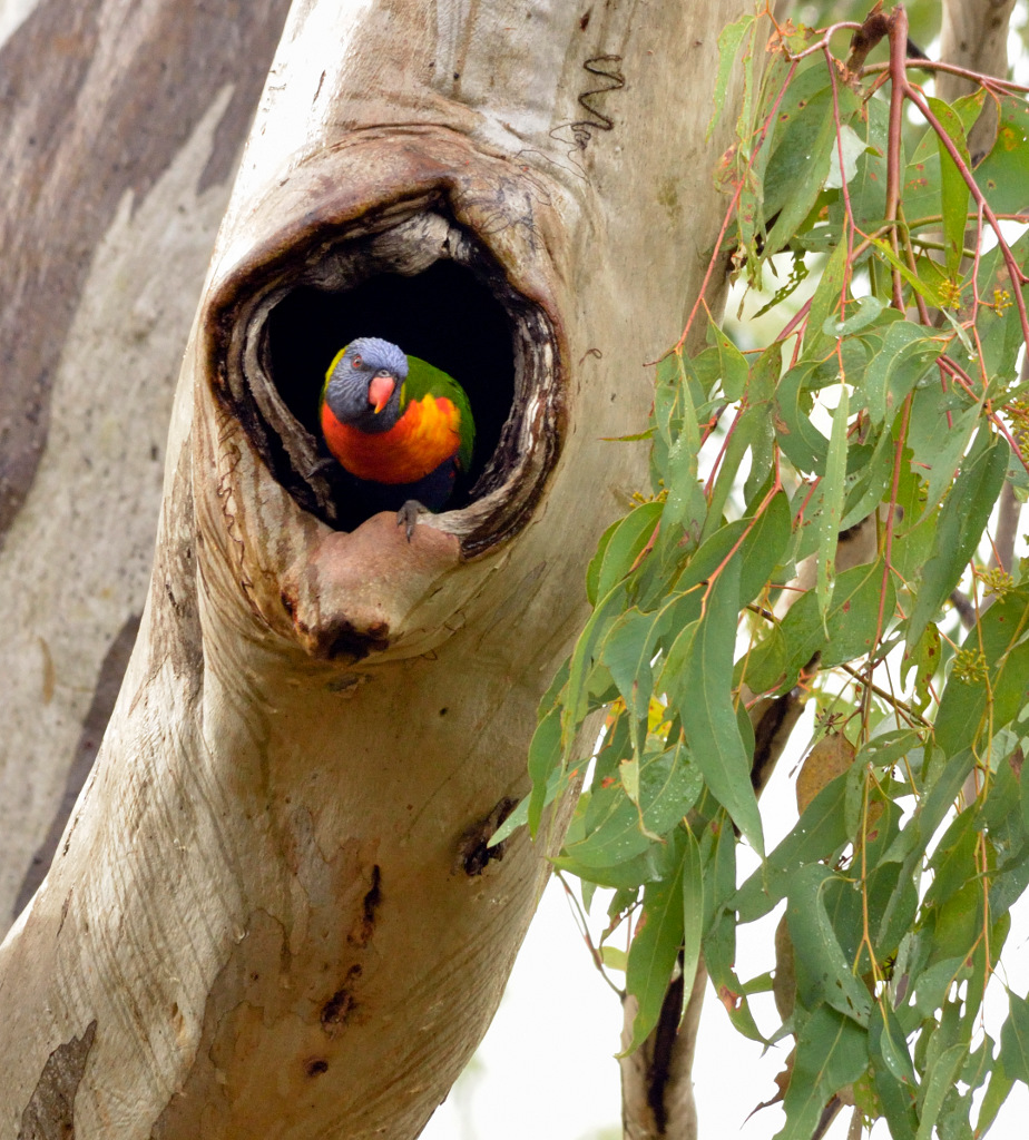 A Rainbow Lorikeet Trichoglossus moluccanus at the entrance to its nest in Brisbane, Queensland, Australia.